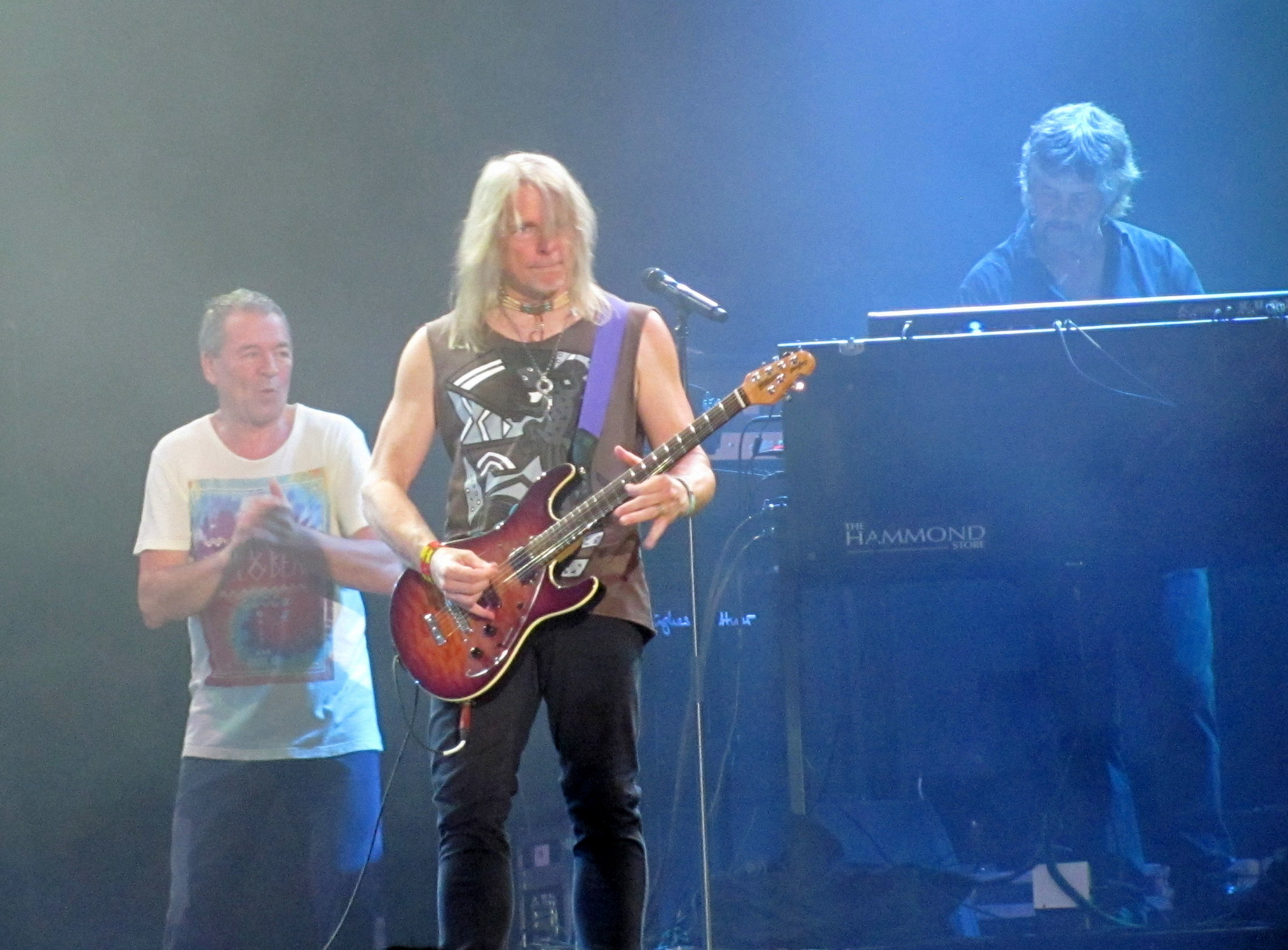 Ian Gillan, Steve Morse and Don Airey at Wacken 2013